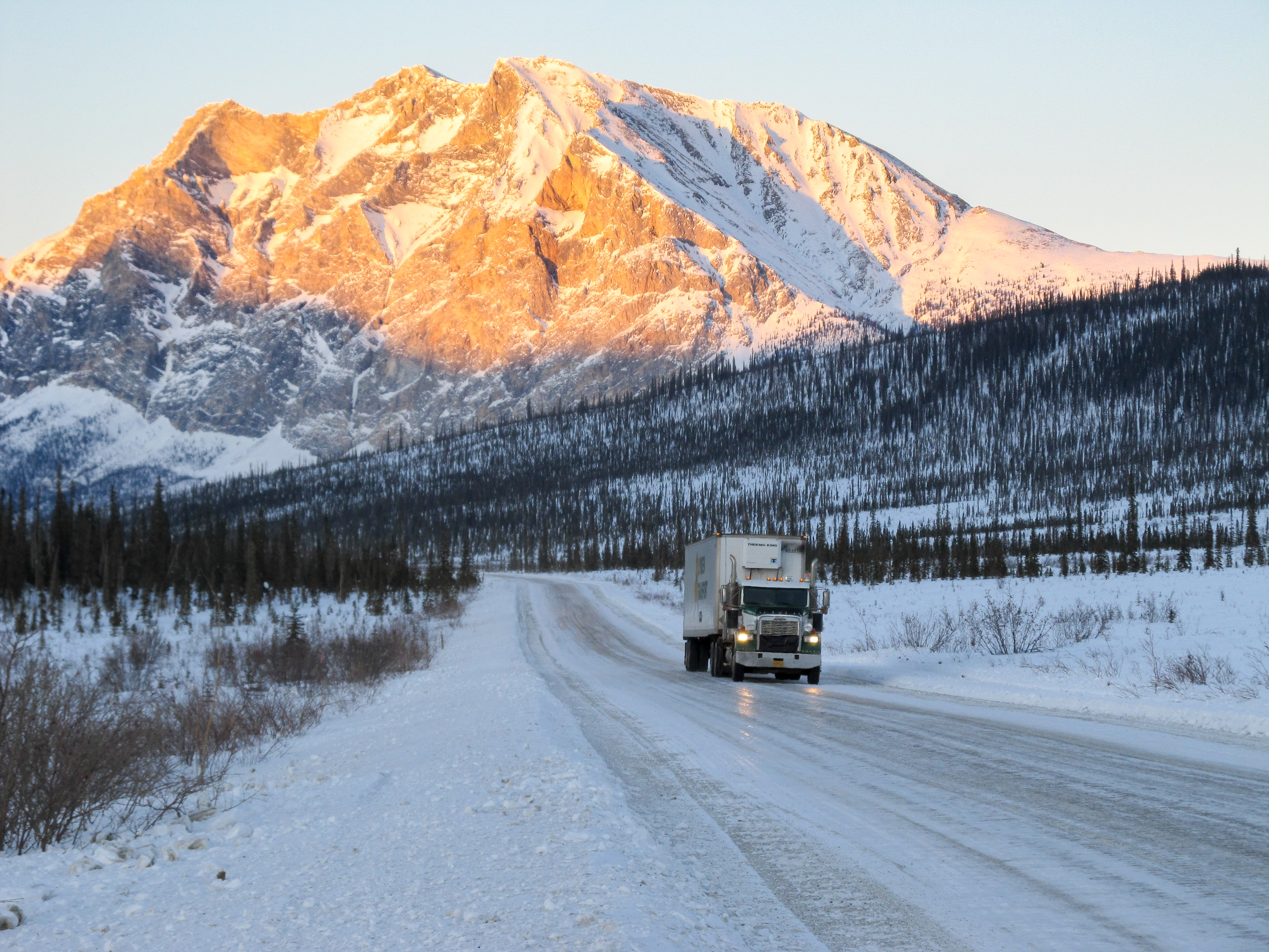 A truck passes Sukakpak Mountain on the Dalton Highway, Alaska